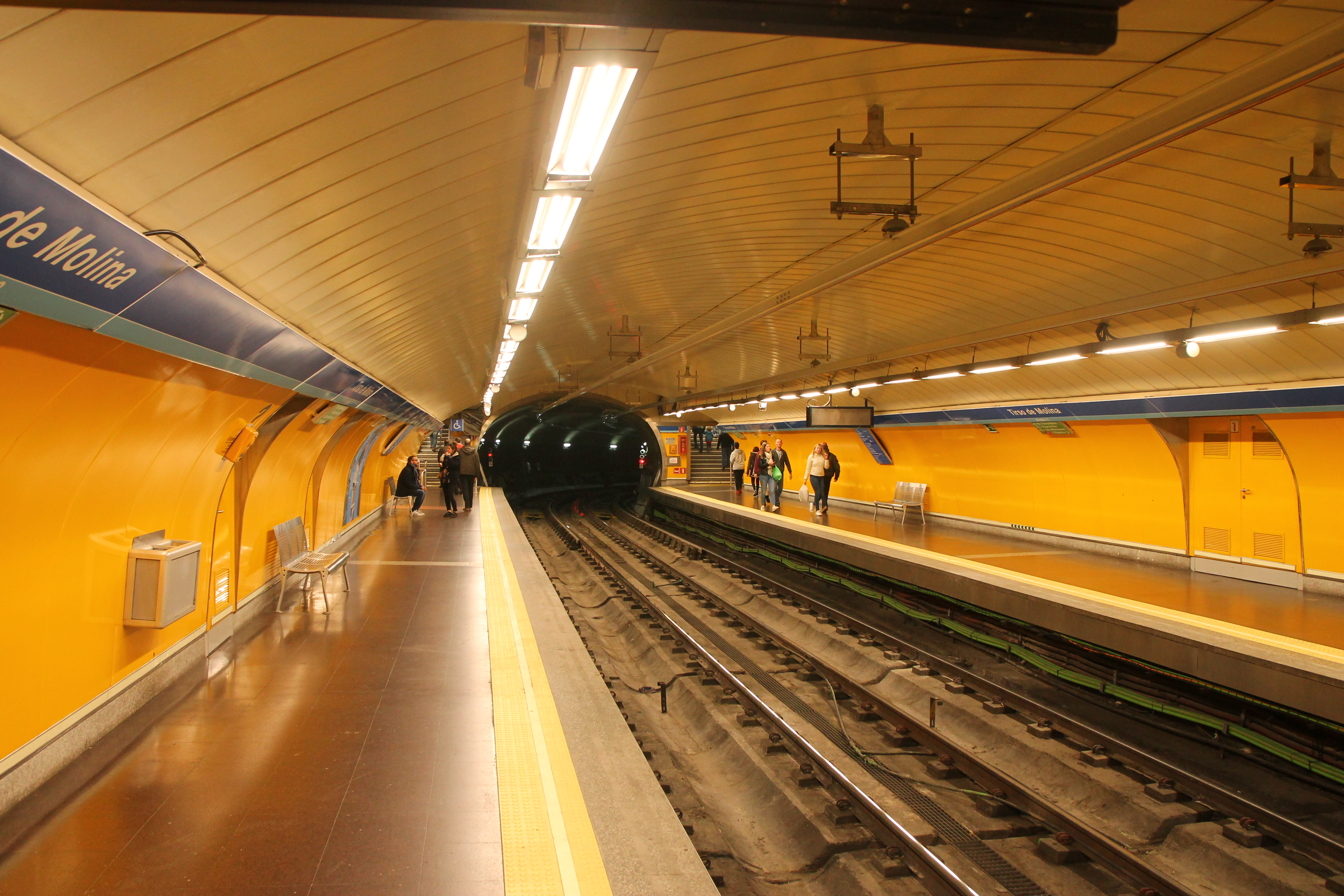 Estación de Tirso de Molina